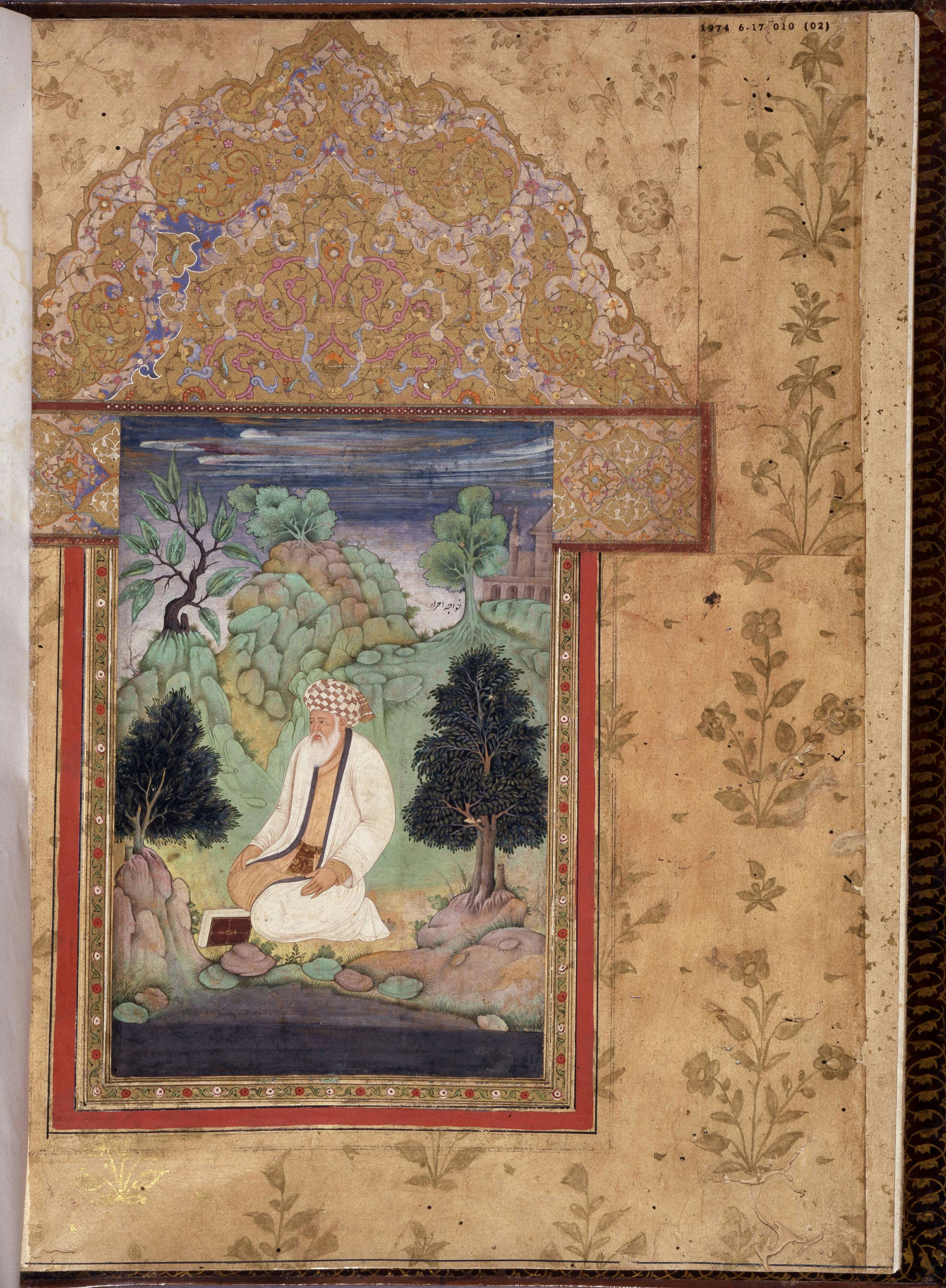 Album Leaf (verso), painting on paper. Devotion. Shaykh Khwaja Ahrar seated by a stream. Inscribed. According to register, folio 1. See 1974,0617,0.10 for album description.